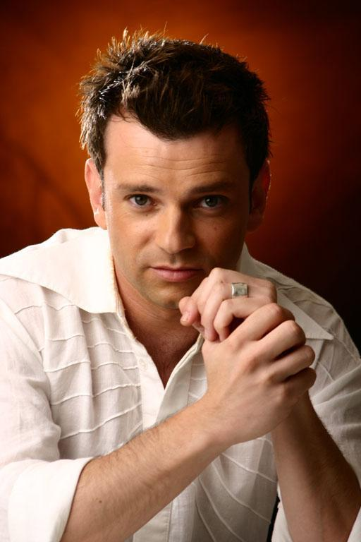 Eyal Barkay face